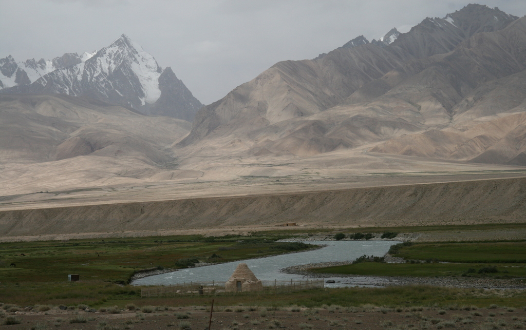 China Xinjiang Karakoram Highway Tashkurgan to Khunjerab